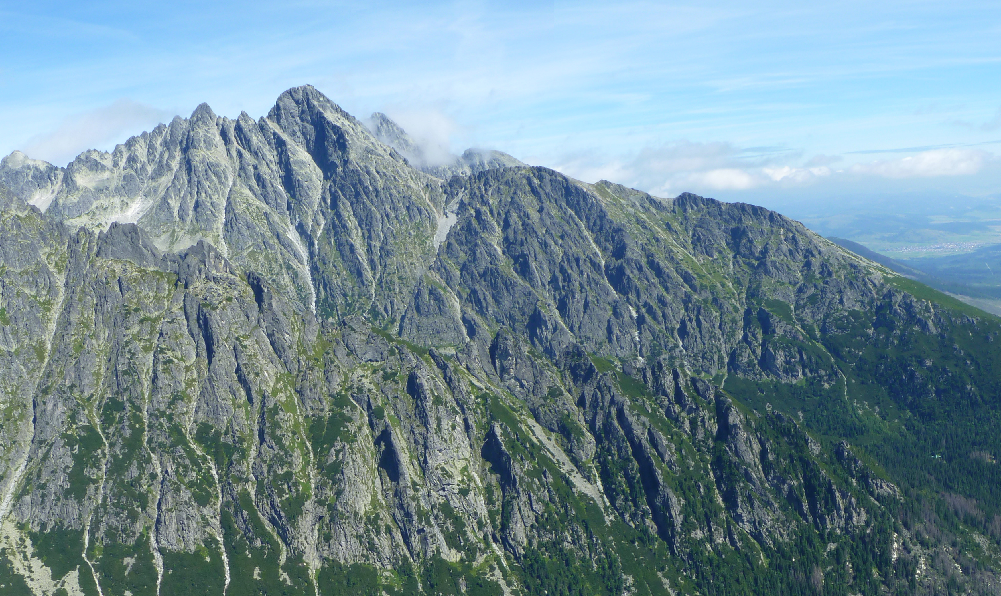 Lomnický štít, Tatra Mountains, Slovakia